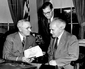 President Truman meeting on May 8, 1951 with Prime Minister David Ben Gurion of Israel and Abba Eban. Truman Library photograph